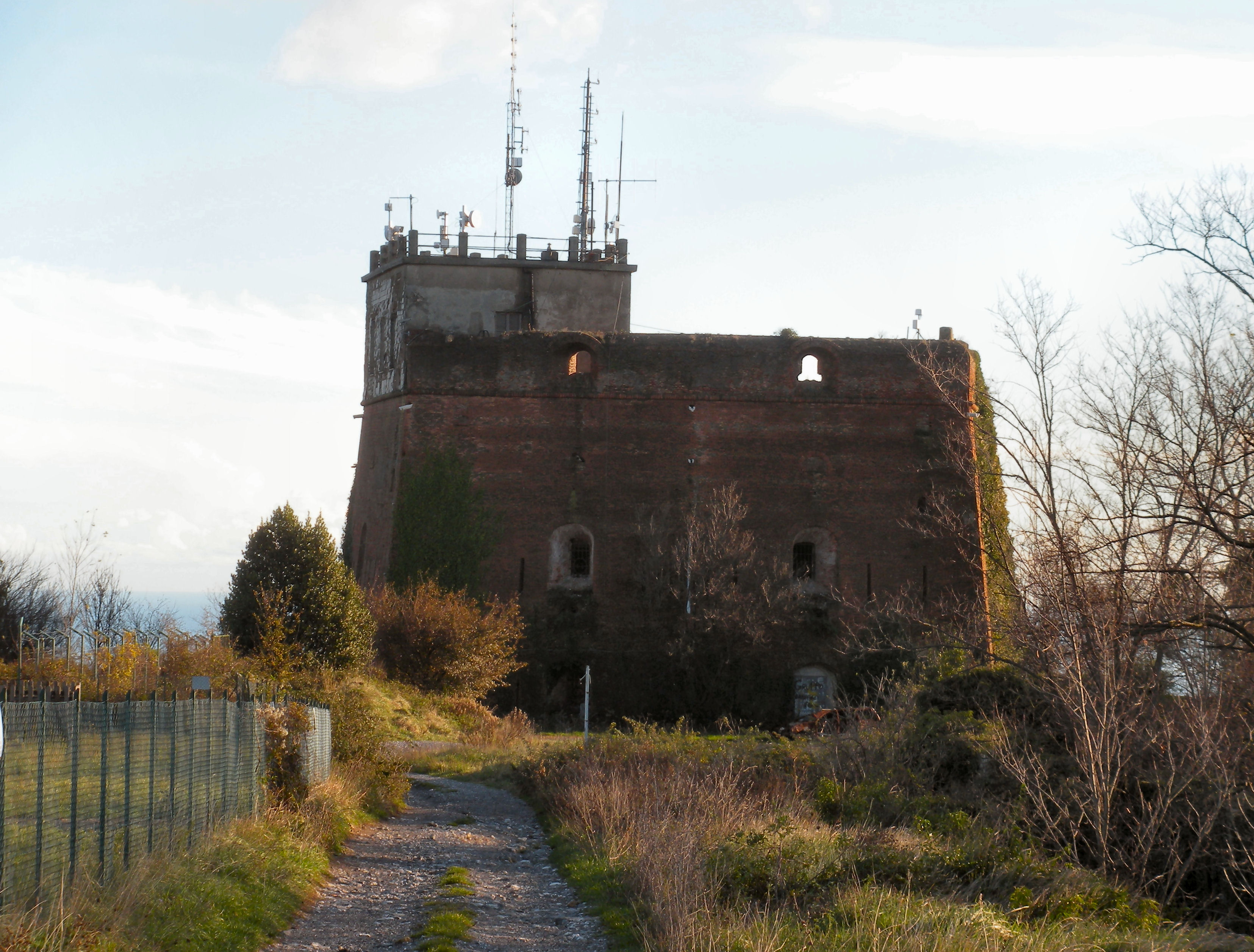 Genoa (Italy), Tower Specola, inside Fort Castellaccio (rear view)